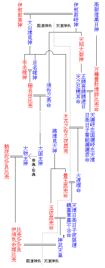 Family tree of shinto kami from Izanagi and Izanami to Emperor Jimmu 天皇家系図 神代